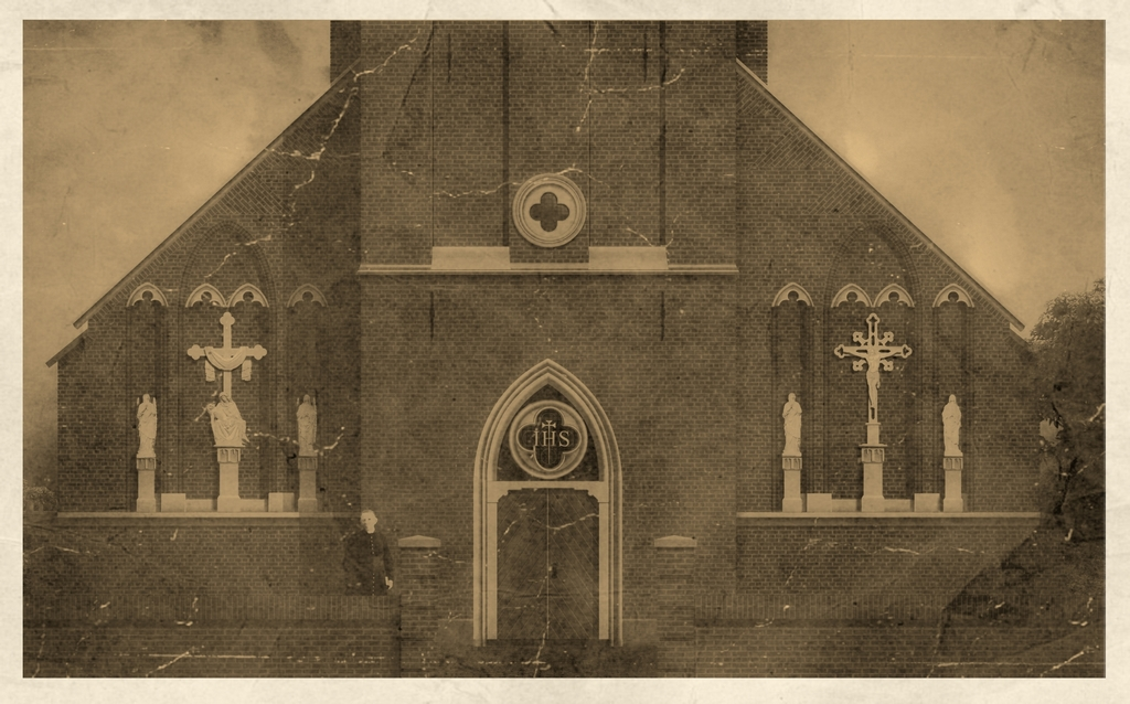 Old church Lierop